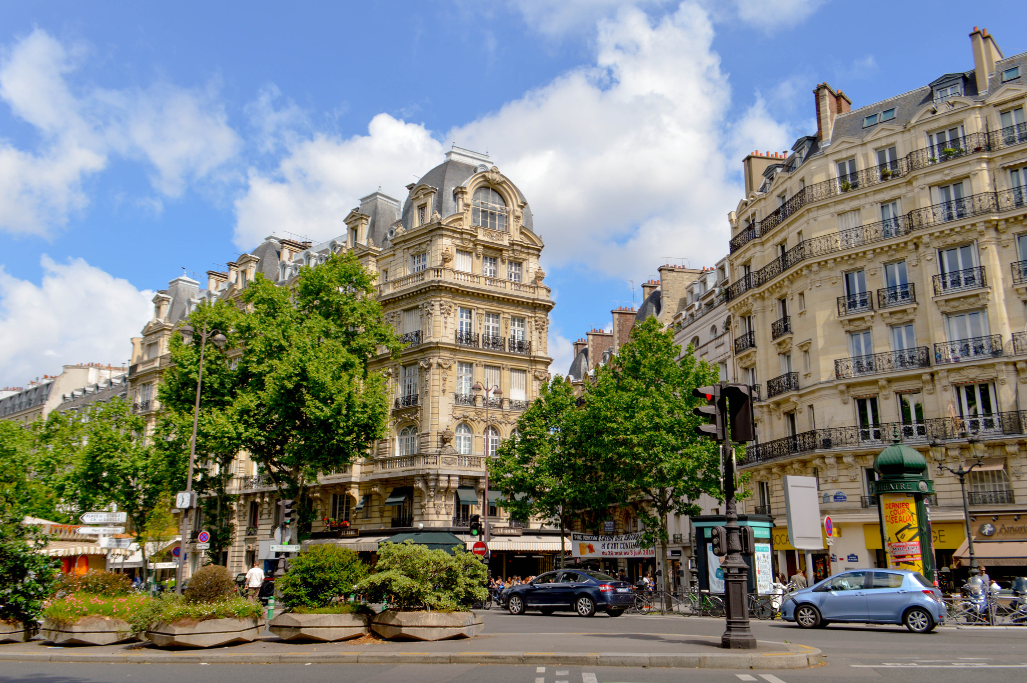 500px provided description: Avenue De Villiers [#city ,#cityscape ,#skyline ,#promenade ,#city life ,#street light ,#clock tower ,#building exterior ,#downtown district ,#city street ,#city break ,#town square ,#Paris ,#Boulevard ,#Haussman]